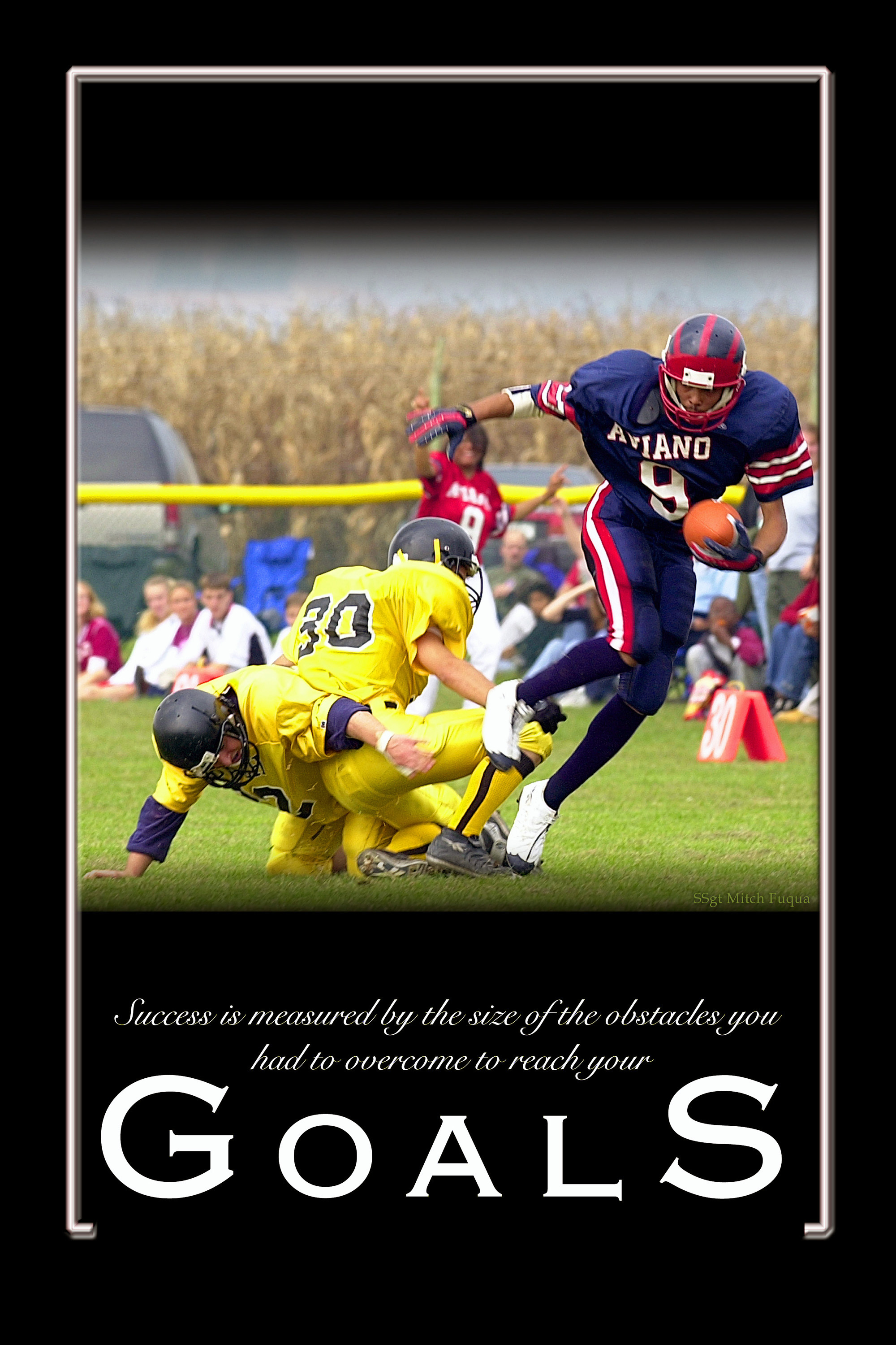 "Goals," a 20x30-inch inspirational color poster photograph of a Football player charging towards a touchdown, created by the 31st Communications Squadron (CS), Visual Information, Aviano Air Base (AB), Italy. Subtitle:"Success is measured by the size of the obstacles you had to overcome to reach your goals."